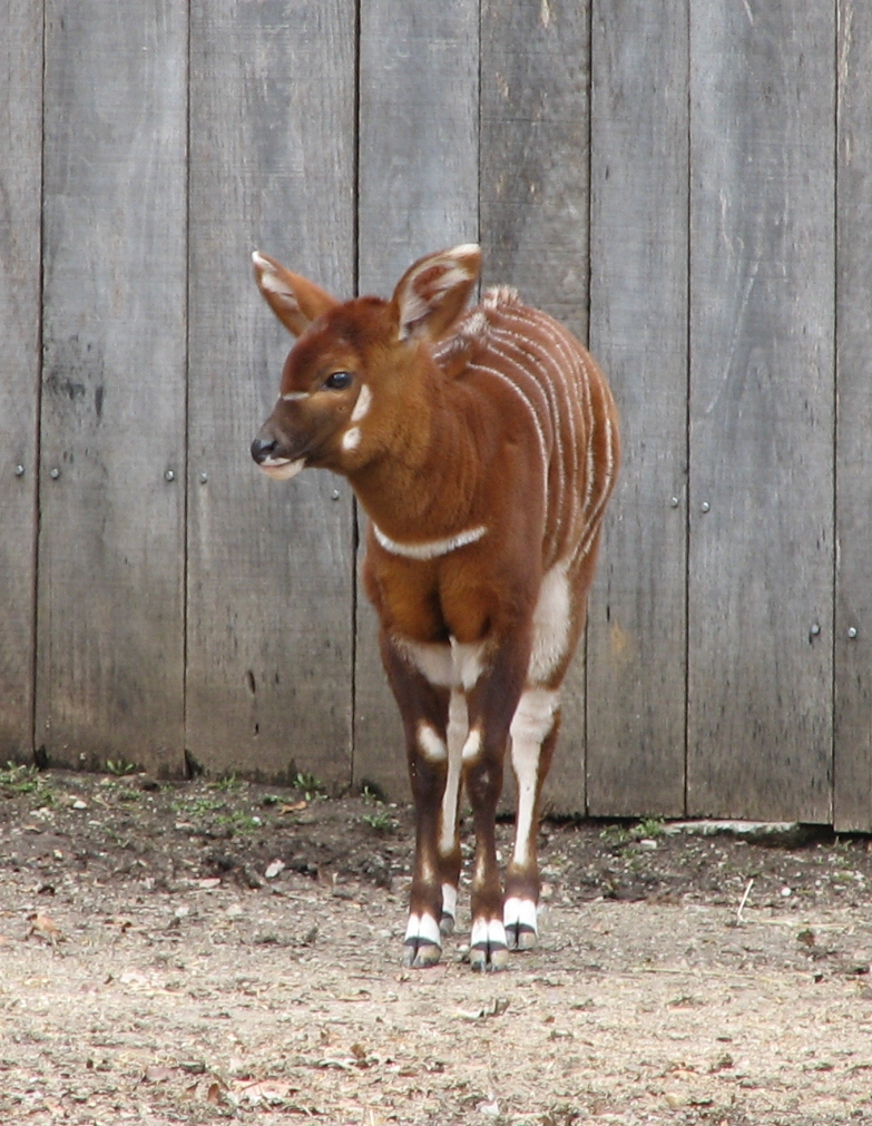 Baby Bongo - Tragelaphus eurycerus isaaci at Louisville Zoo in Kentucky